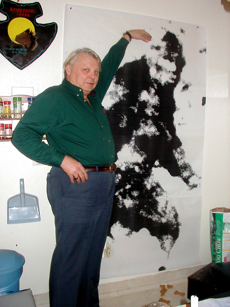 Cryptozoologist Jon Erik Beckjord (1939-2008) stands with a portrait of Bigfoot. Taken in his home in Berkeley, CA, 2000.